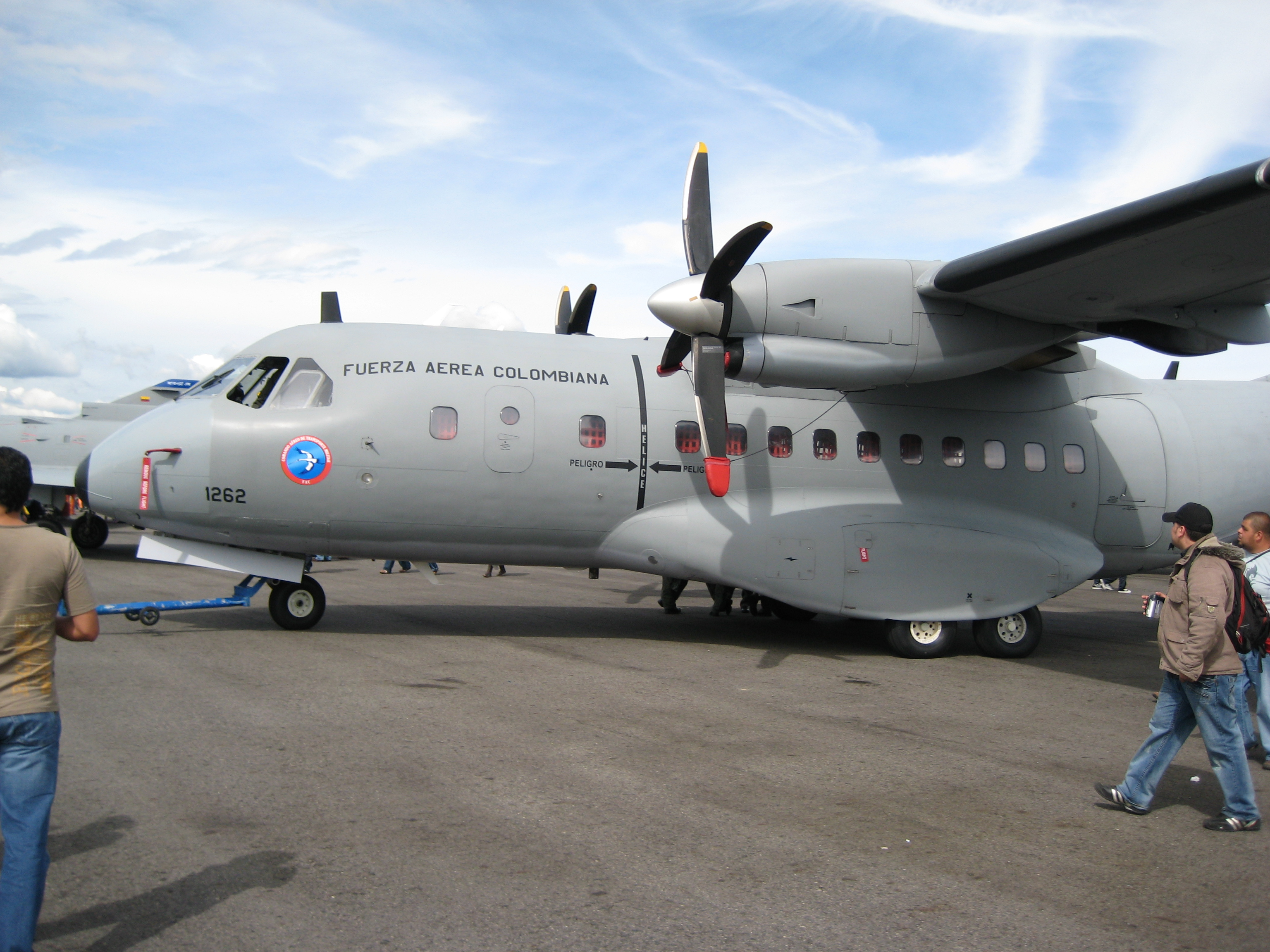 CN-235 FAC1262 during F-Air 2008